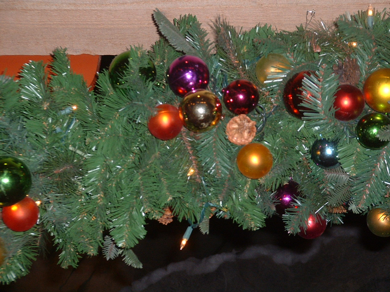 Christmas Ornaments inside a Las Vegas, Nevada Casino